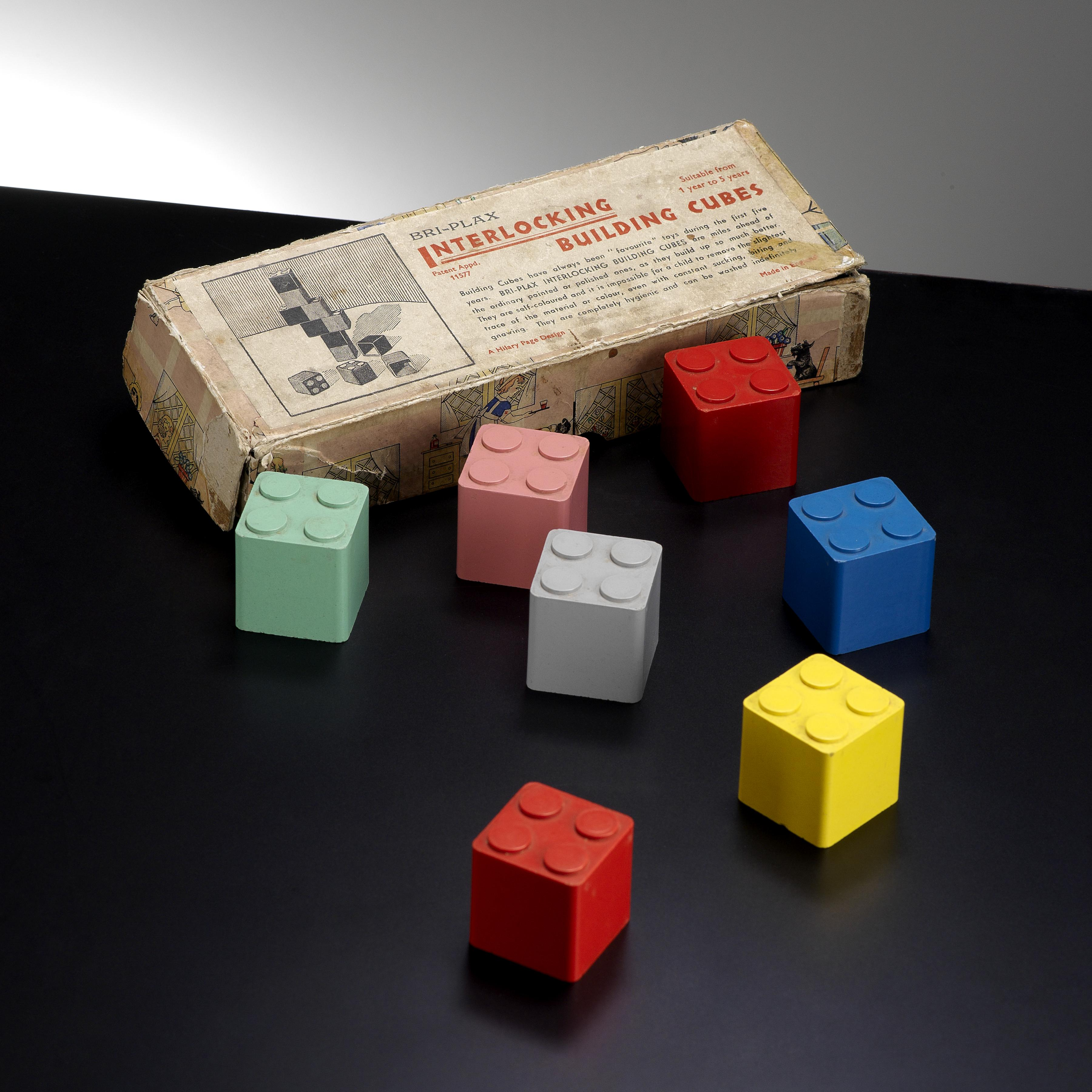 Bri-Plax K280 Interlocking Building Cubes (later marketed under the Kiddicraft brand). Invented by Hilary Fisher Page and patented in 1939 (British patent no. 529580). Page’s later Self-Locking Building Bricks (patent no. 633055, 1949) were copied by Lego and developed into the modern Lego brick.